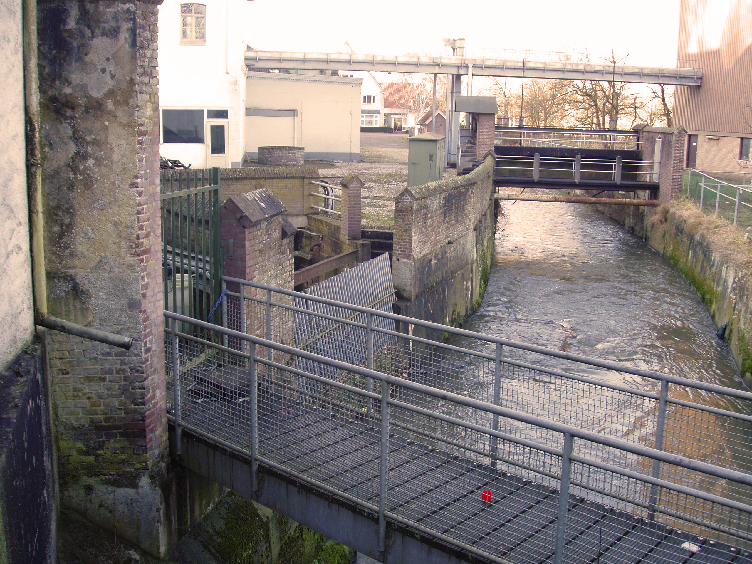 Kruitmolen, Valkenburg, Watermill, Limburg, Netherlands